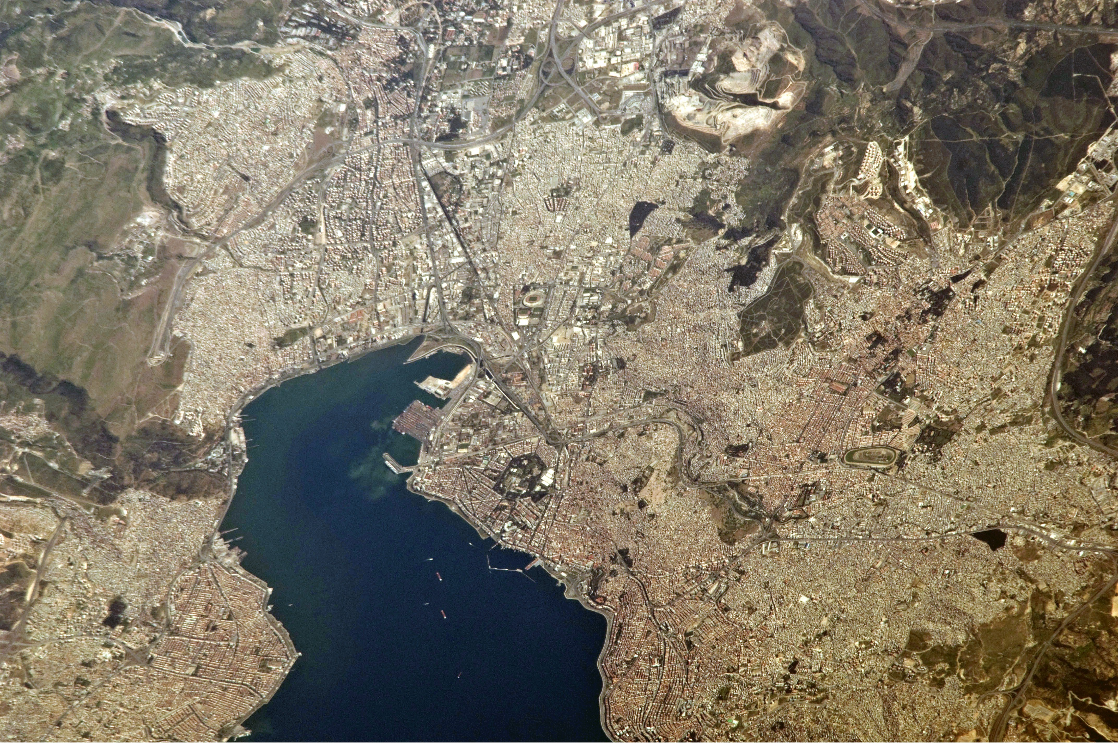 This astronaut photograph highlights the modern urban landscape of the İzmir metropolitan area. Due to its location on the Gulf of İzmir (lower left) and its access to the Aegean Sea, İzmir has been an important Mediterranean Sea port for most of its history. Densely built residential and commercial districts, characterized by gray to reddish gray rooftops, occupy much of the center of the image. Larger structures with bright white rooftops are indicative of commercial/industrial areas near the port (image left). Two large sport complexes, the Atatürk Stadium and Şirinyer Hippodrome (horse racing track) are visible at image upper left and image right. Numerous vegetated parks (green) are located throughout the area.